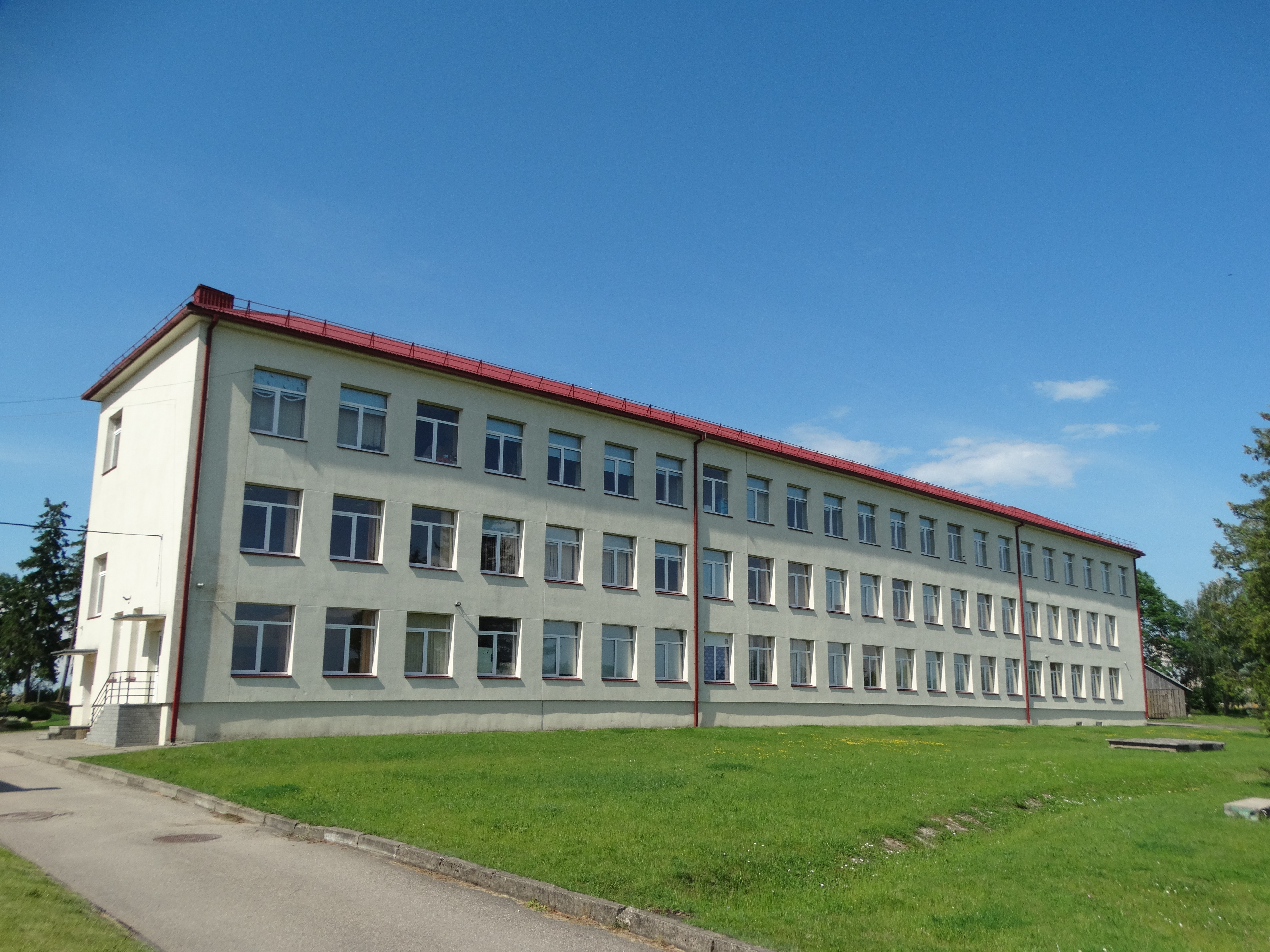 Siesikai, gymnasium, Ukmergė district, Lithuania